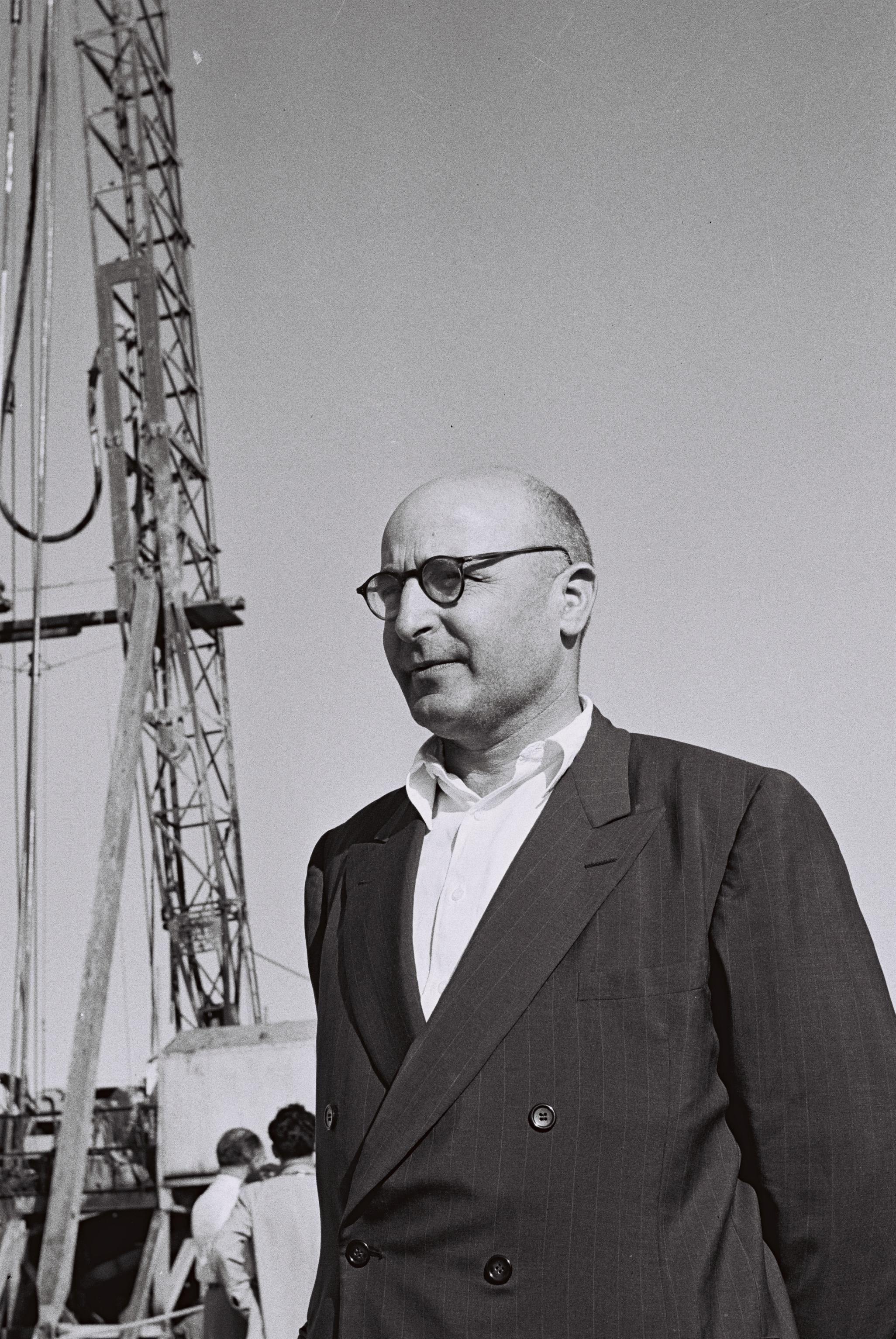 MR. PINHAS SAPIR, MINISTER OF COMMERCE AND INDUSTRY, MEMBER OF KNESSET, MAPAI PARTY.